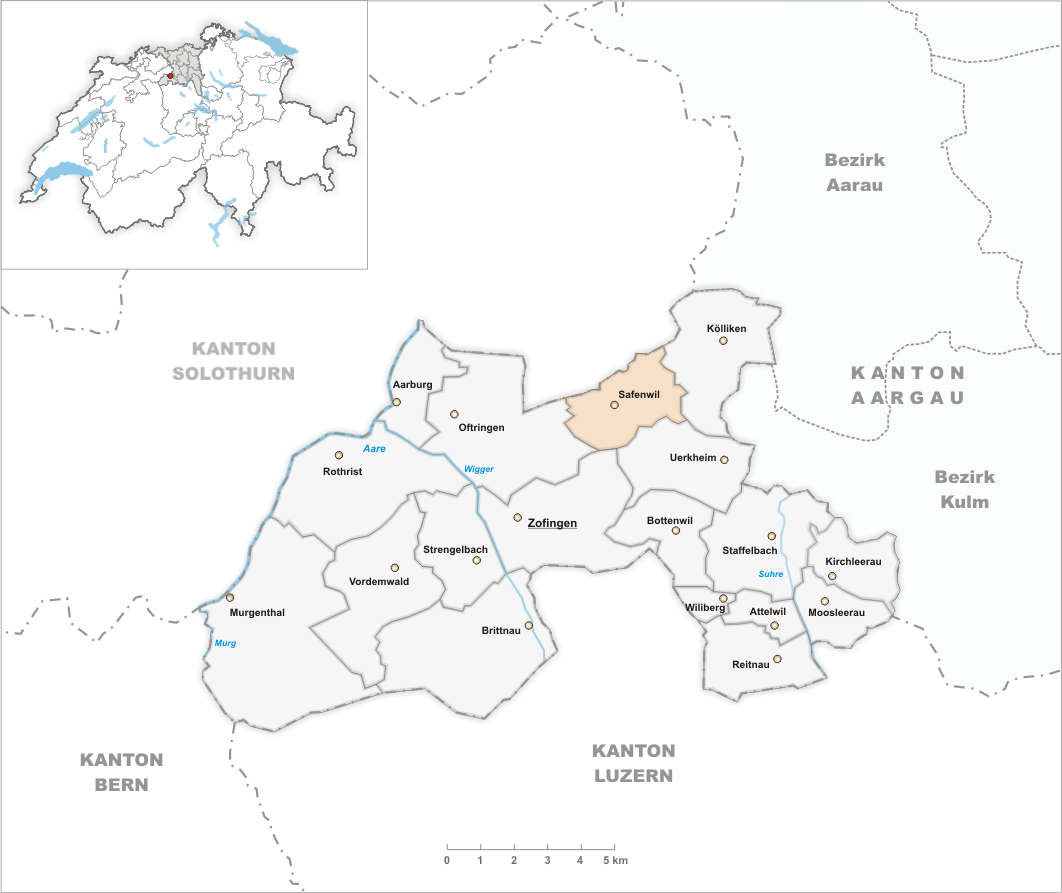 Municipality Safenwil